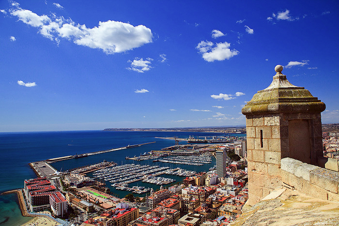 Alicante, Spain